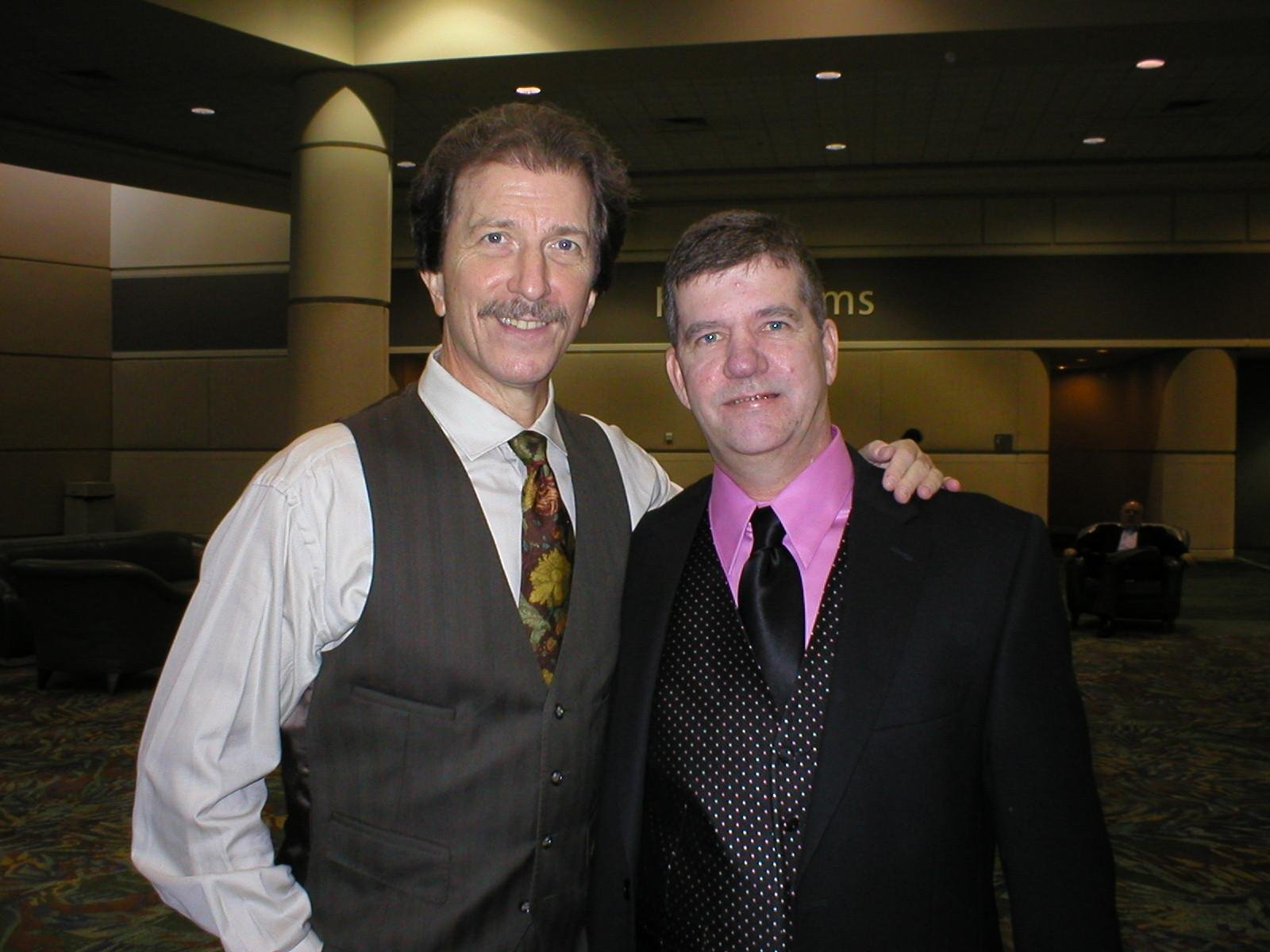 Jim Rempe and McCready This is my personal photo that I took with my camera and may be released to the public domain.